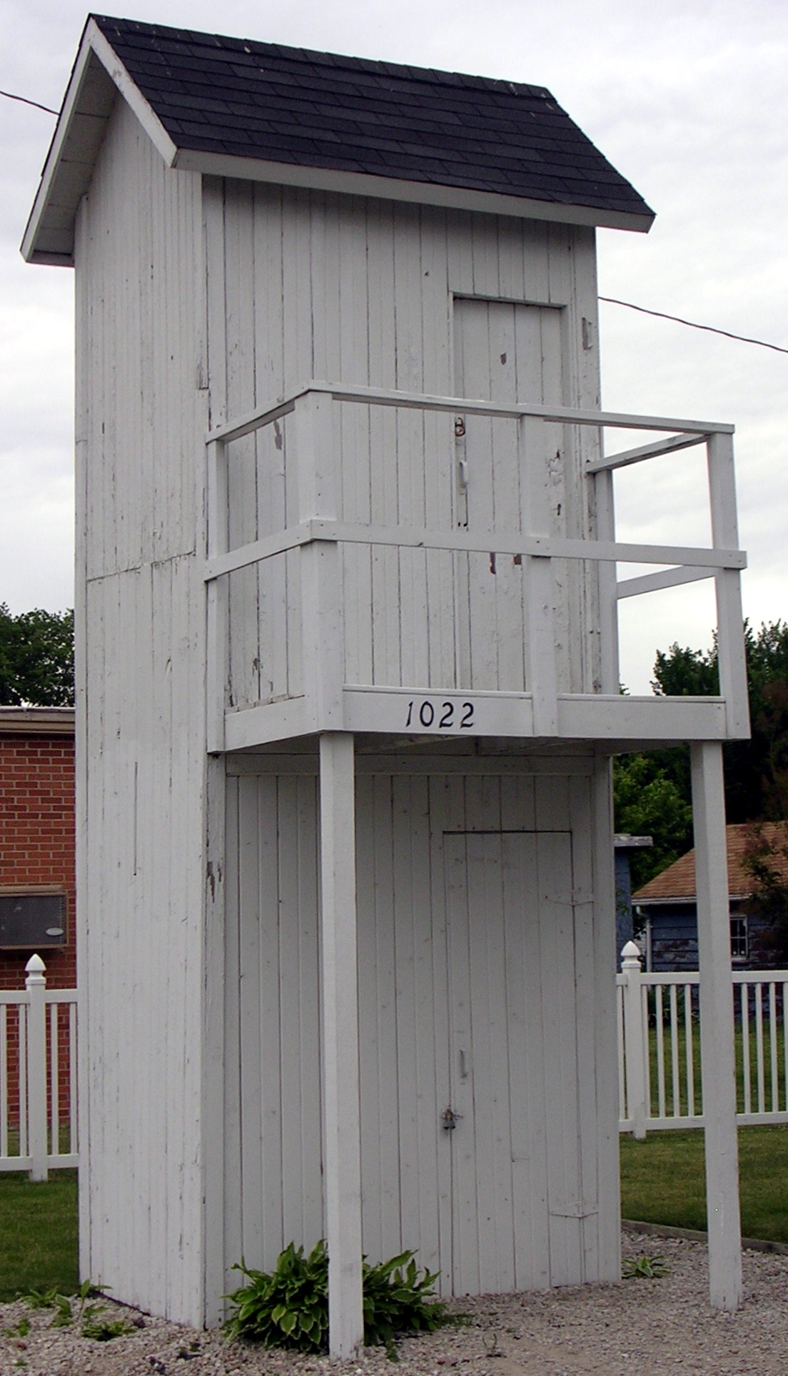 Photo taken by me May 29th, 2005 with a Nikon 3200 and edited with GIMP 2.2.